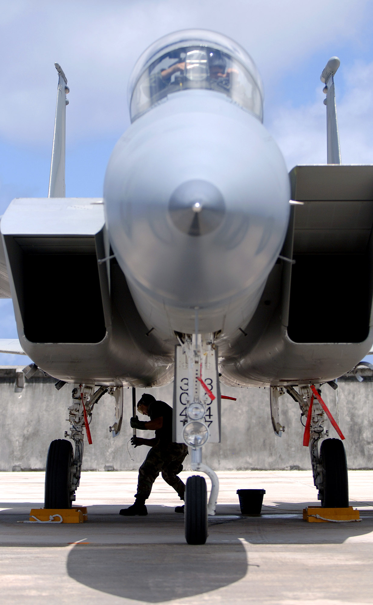 USAF Caption: An F-15E Strike Eagle crew chief from Elmendorf Air Force Base, Alaska, parks the aircraft after a training sortie at Exercise Valiant Shield 2006 on Monday, June 19, at Andersen AFB, Guam. Valiant Shield, a U.S. Pacific Command exercise, runs June 19 to 23. It focuses on integrated joint training and interoperability among U.S. military forces while responding to a range of mission scenarios. (U.S. Air Force photo/Staff Sgt. Bennie J. Davis III) Note this F-15's light gray color indicates an earlier model like F-15C or D. Numbers on nose wheel indicate Tail number 83-0047 c/n 0868/D046 which is listed as a McDonnell Douglas F-15D-35-MC Eagle